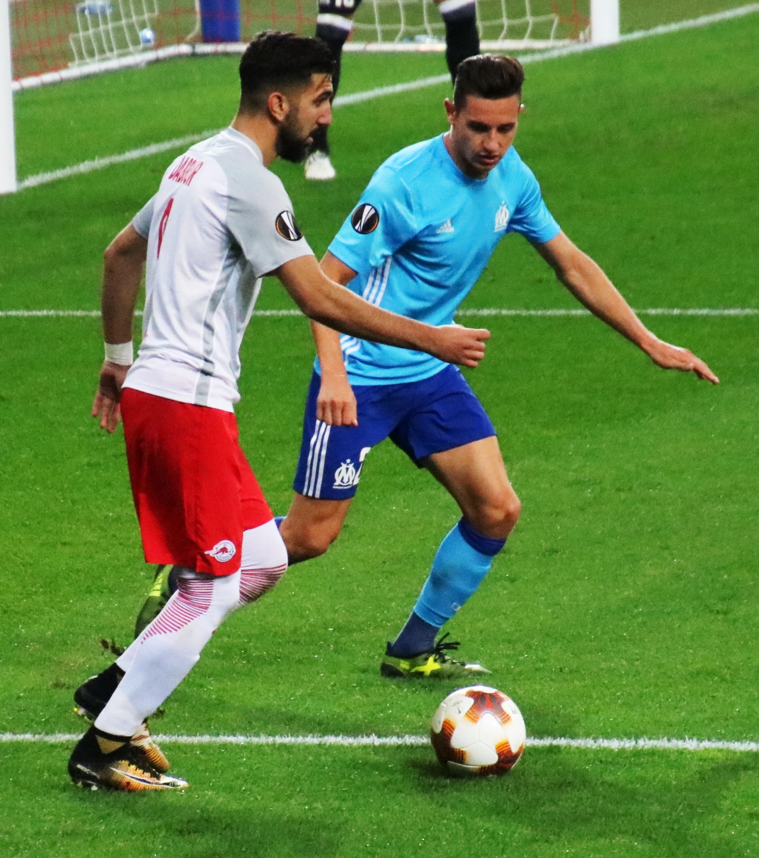 UEFA Euroleage group stage 2nd round